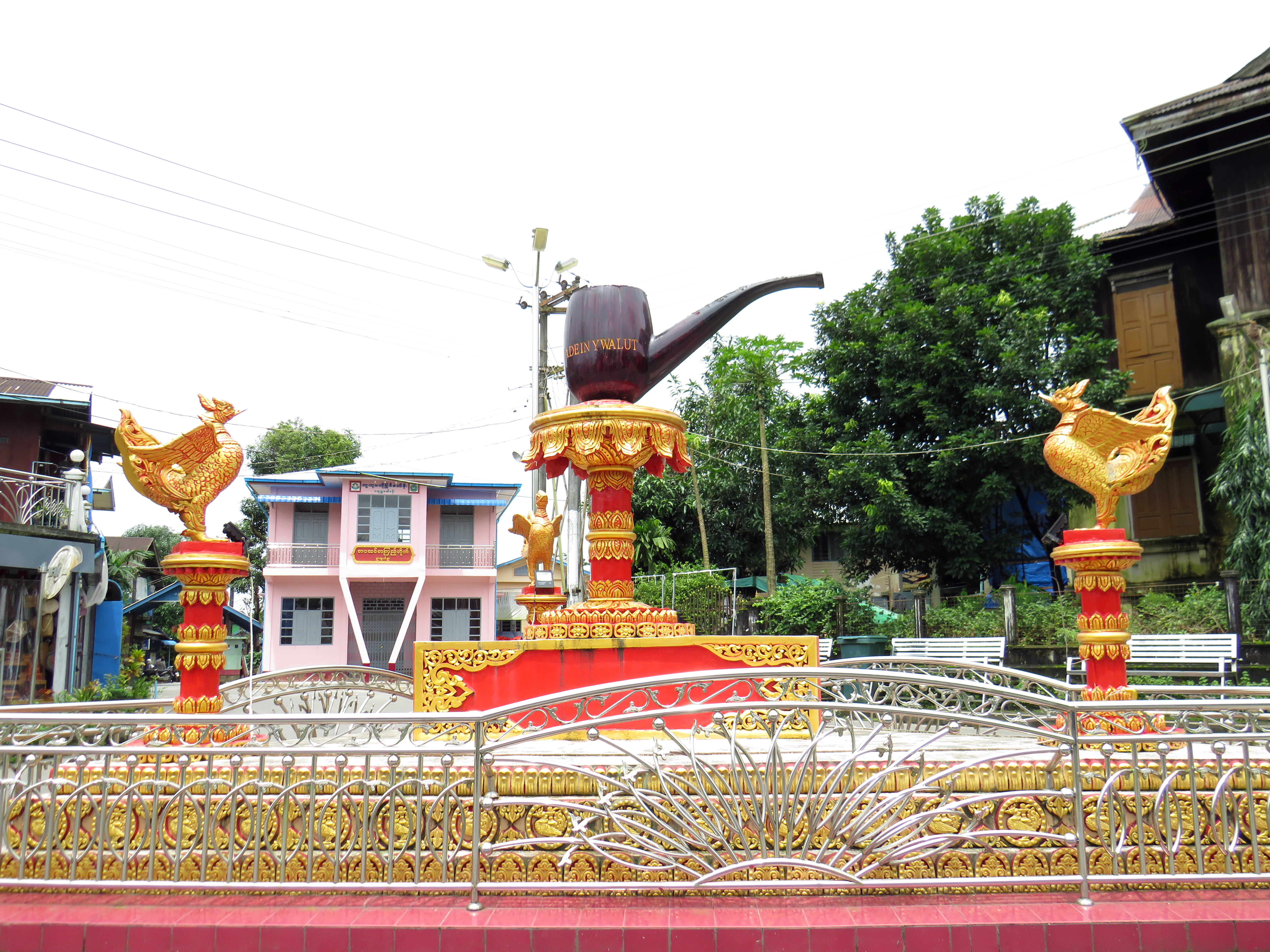 Statue of Pipe and Hamsa in Ywalut village, Chaungzon Township, Mon State, Myanmar